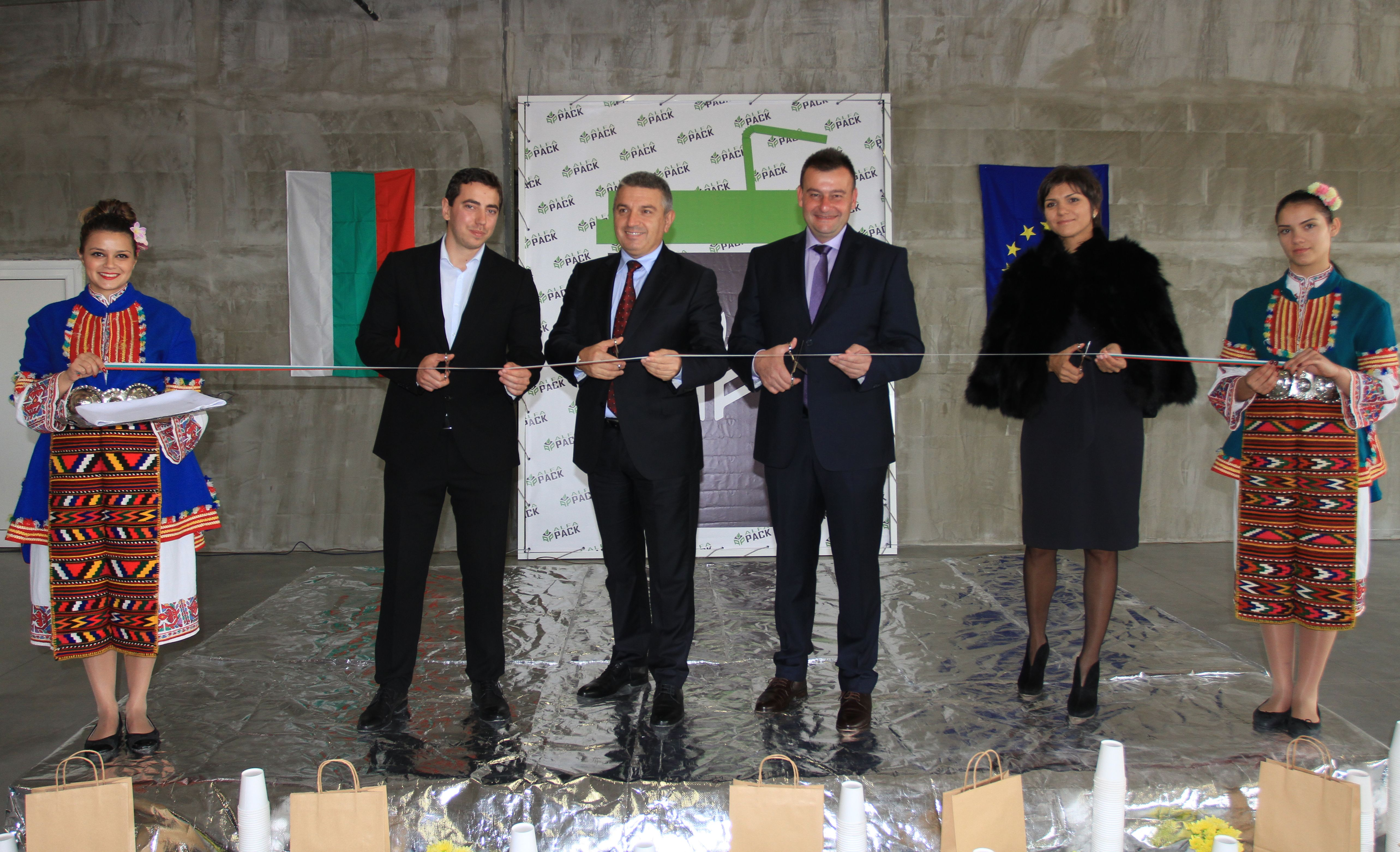 ALFAPACK Plant opening, Slivnitsa, Bulgaria